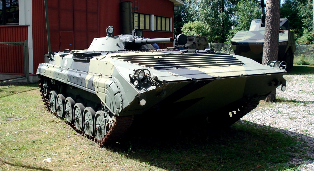 Soviet-manufactured Finnish BMP-1 IFV, displayed at Parola Tank Museum. Photo taken on July 14, 2006. Source: Photo by me, User:Balcer.